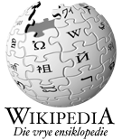 The logo of the Afrikaans Wikipedia.